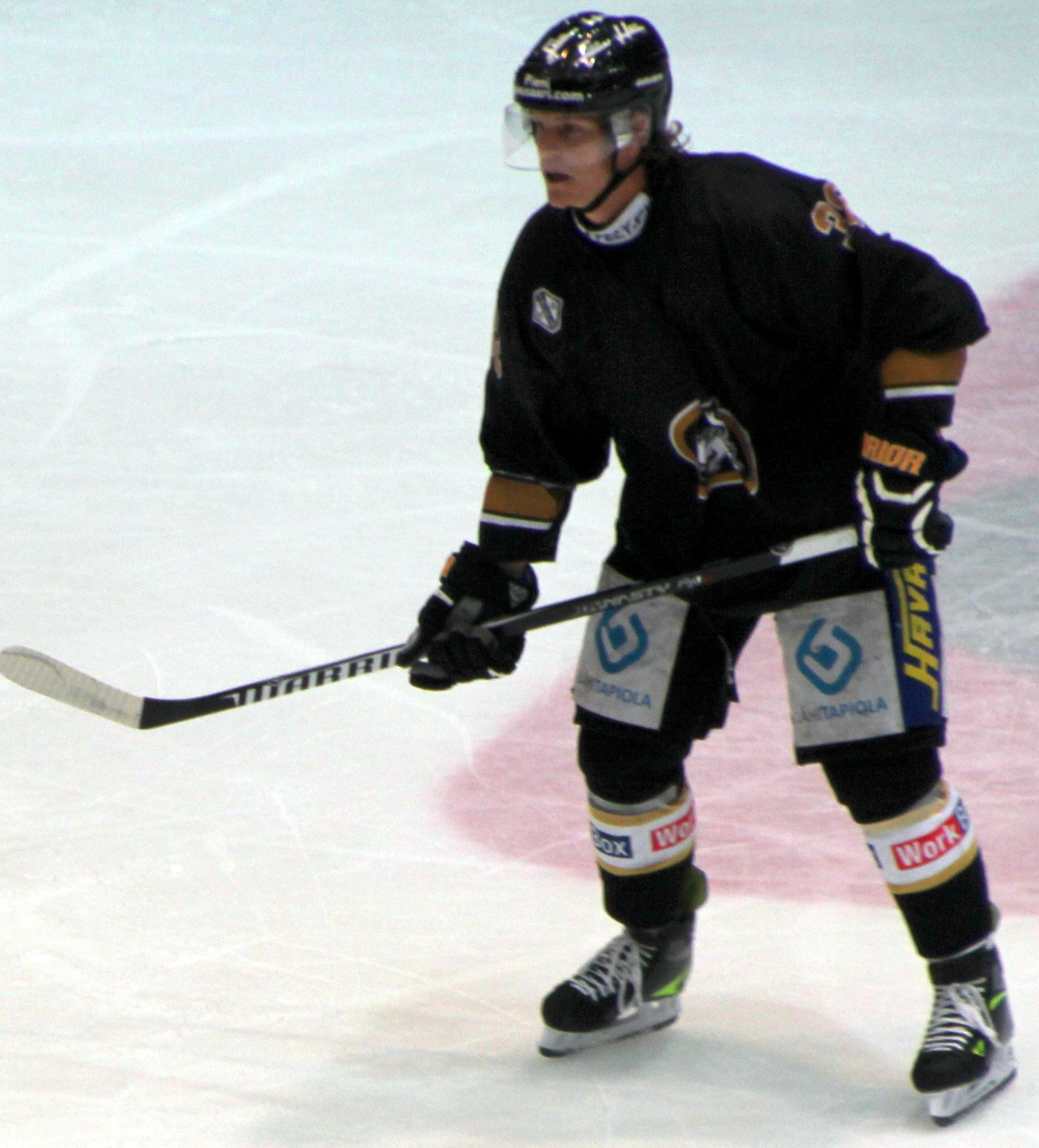 Adam Masuhr in 2014